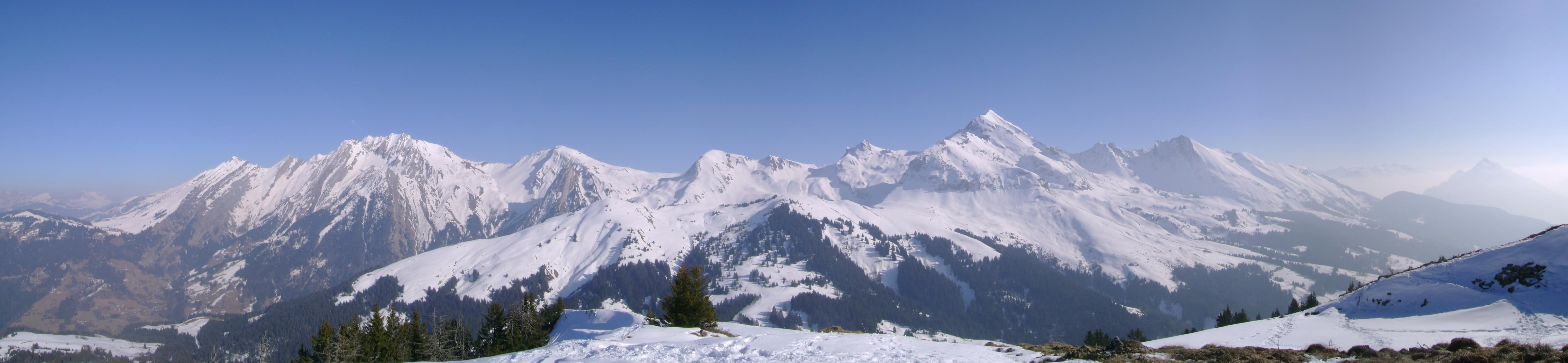 Southern half of western face of Aravis range (from Col des Aravis to southern extremity).